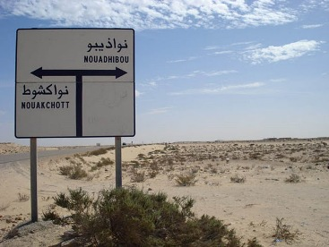 cross road in mauritania